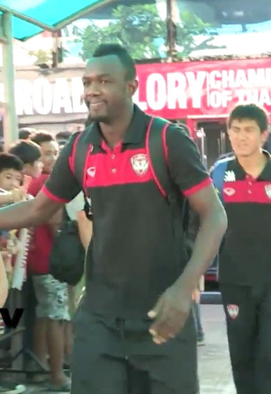 Dango Siaka before game Thai Premier League Ostospa Saraburi - Muangthong United